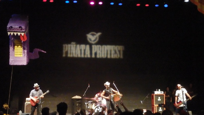 Piñata Protest performing live in 2015